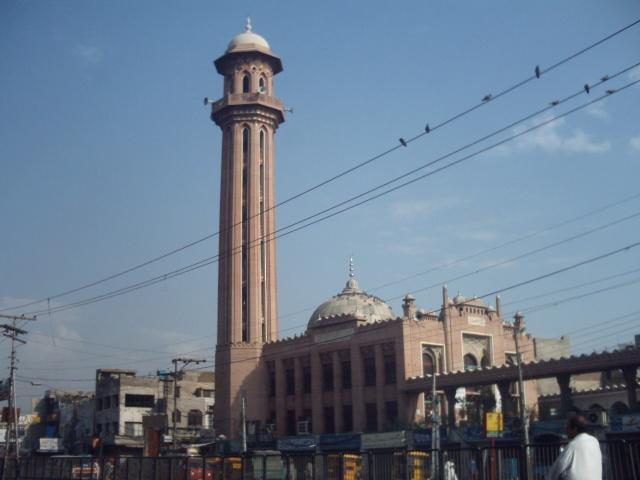 The Lahori Gate Mosque Picture taken by Pale blue dot on June 12, 2004.